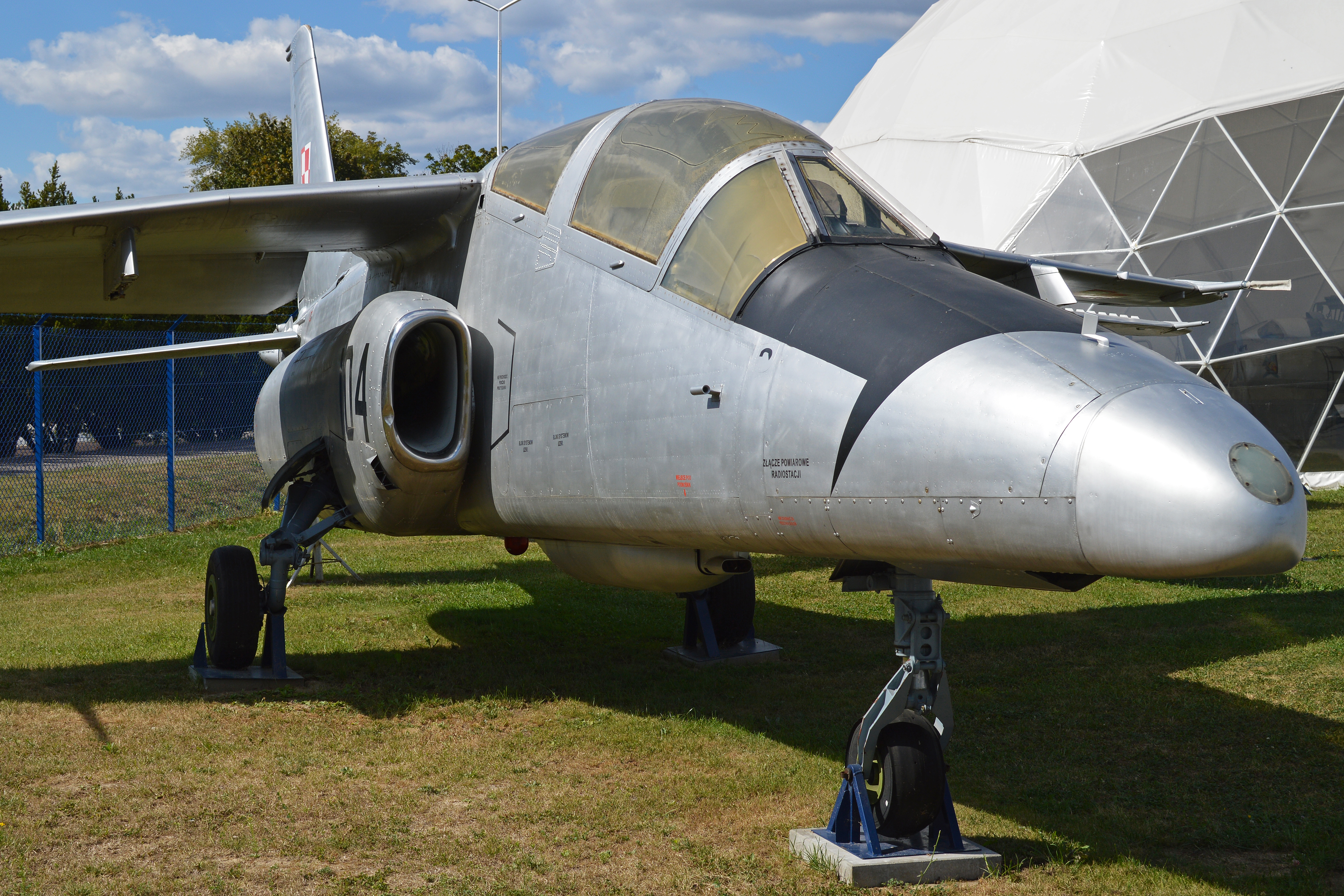 The I-22 was intended to replace the TS-11 Iskra in Polish Air Force service. It first flew in 1985 but was finally cancelled in 1996 due to budget. This is one of the prototype aircraft. The code '104' is taken from the c/n, and may not actually be an Air Force serial. c/n 1ANP01-04. On display at the Muzeum Sit Powietrznych. Deblin, Poland. 25-8-2013